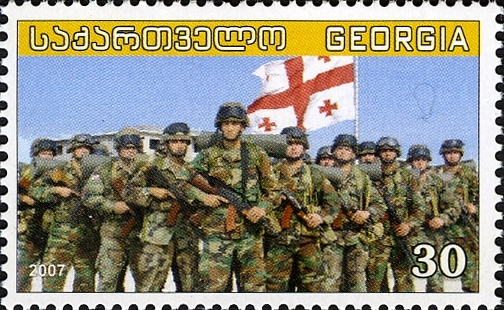 Stamps of Georgia, 2007